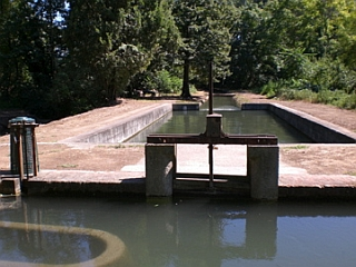 Genivolta, Cremona, Italy, the hydraulic node called Tombe Morte